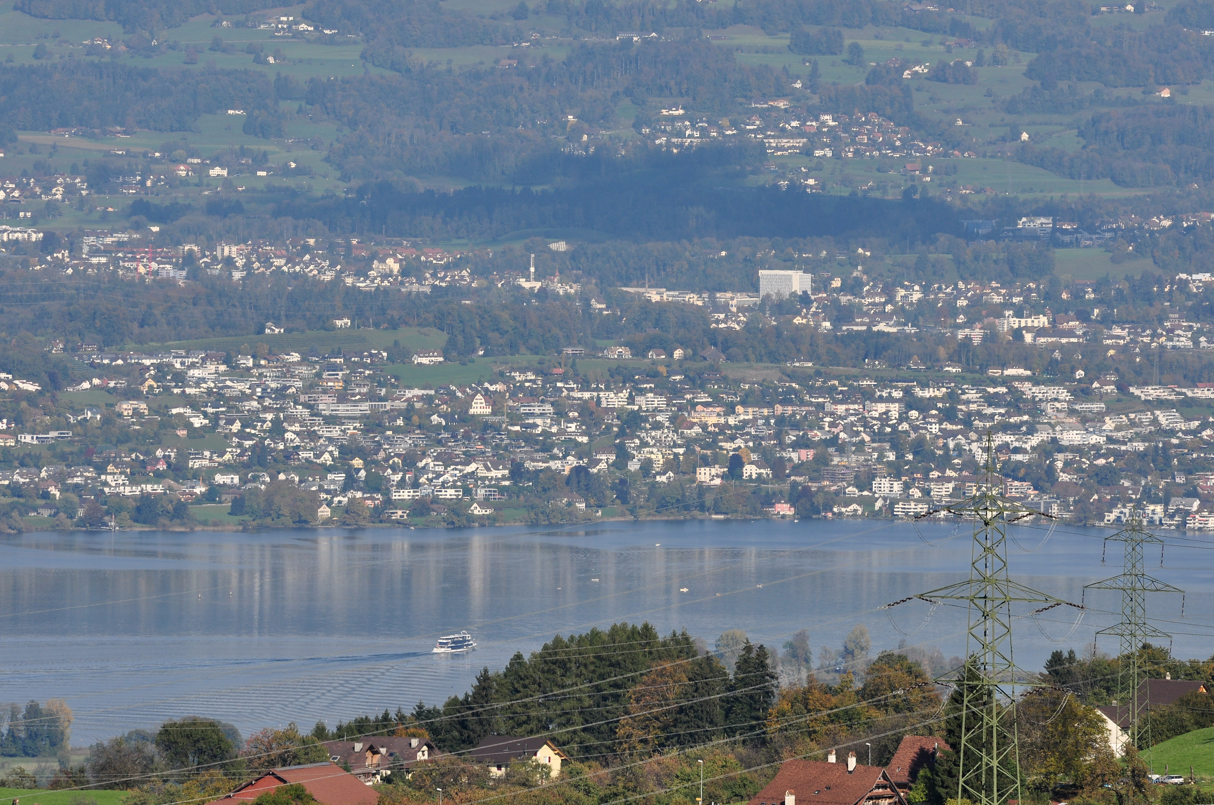 Kempraten, Tann (to the left), Rüti and Zürichsee, as seen from Feusisberg (Switzerland) nearby Etzel mountain, Zürichsee-Schiffahrtsgesellschaft (ZSG) MS Panta Rhei sailing towards Rapperswil.